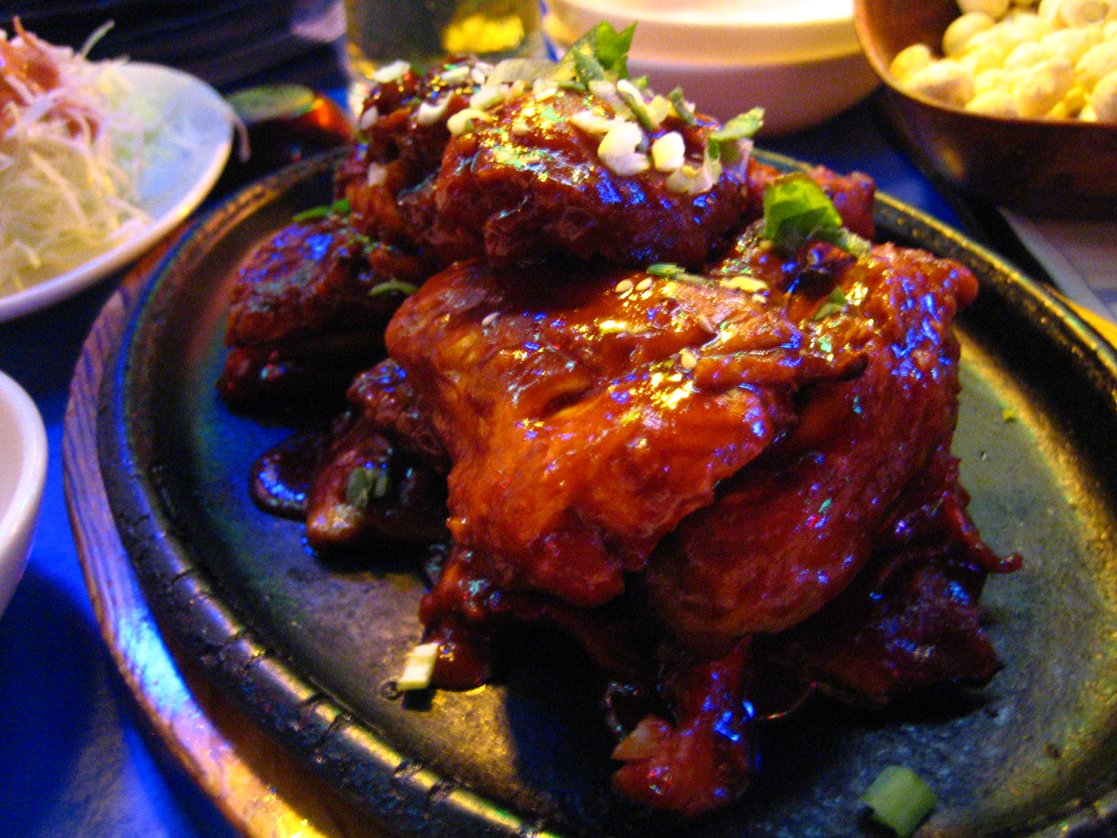 Yangnyeom chicken, Korean style fried chicken